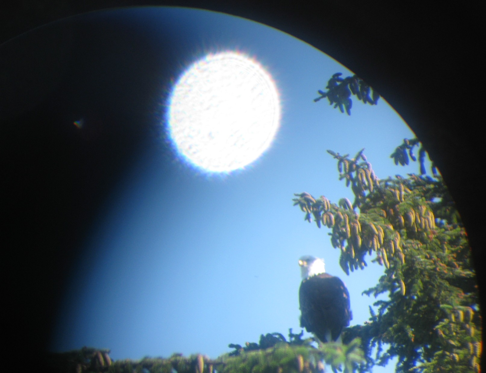 Eagle cited through a telescope near Chilkoot Lake